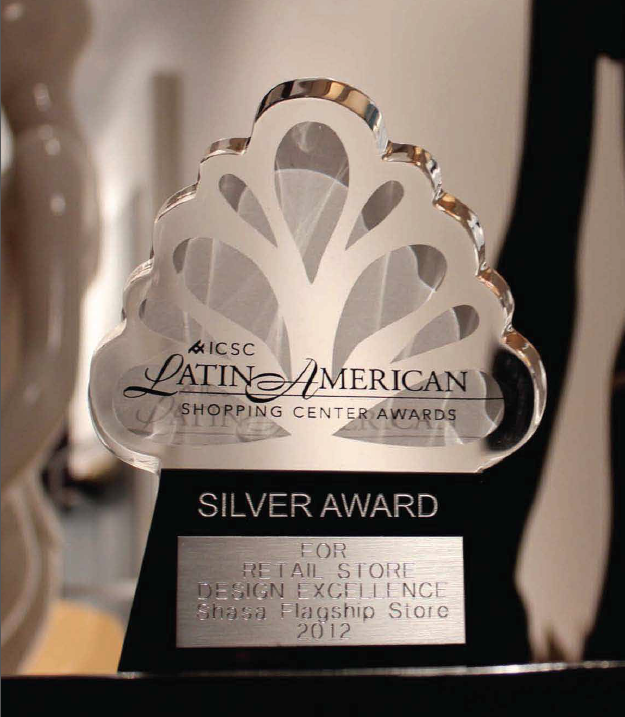 ICSC Latin American Shopping Center Awards